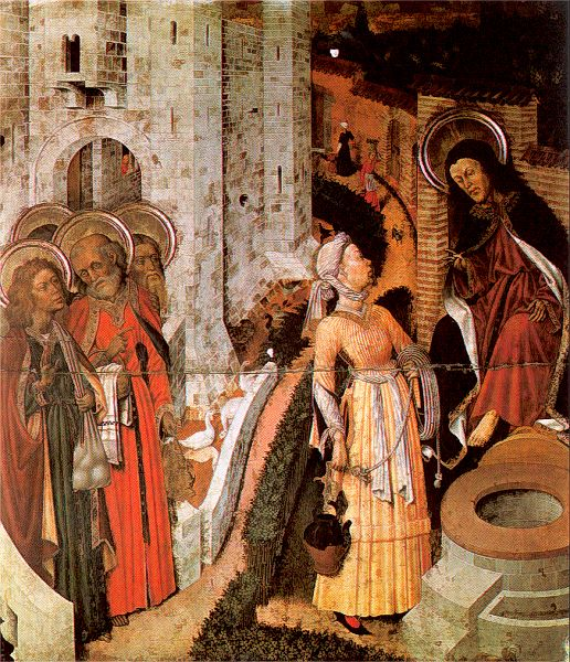 Christ and the Samaritan woman, by B. Martorell, 15th cent. Part of the Transfiguration altarpiece, Cathedral of Barcelona